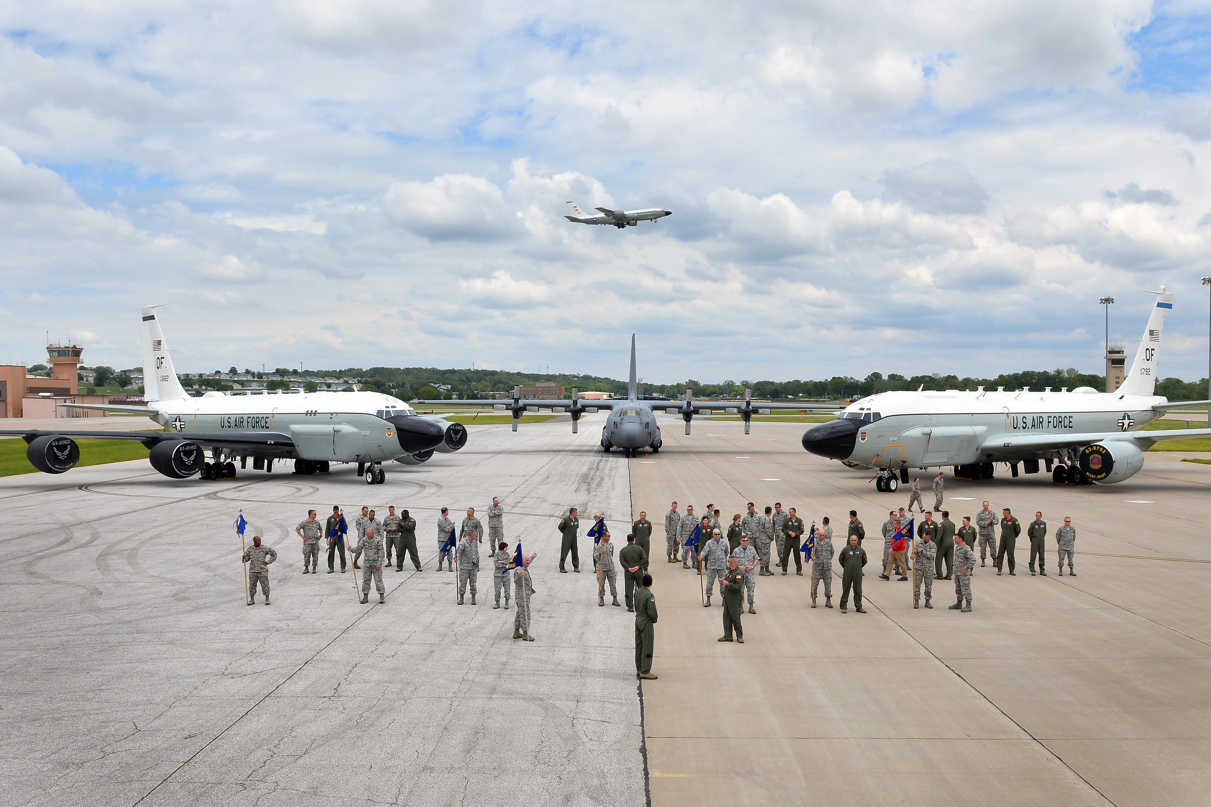 fly by